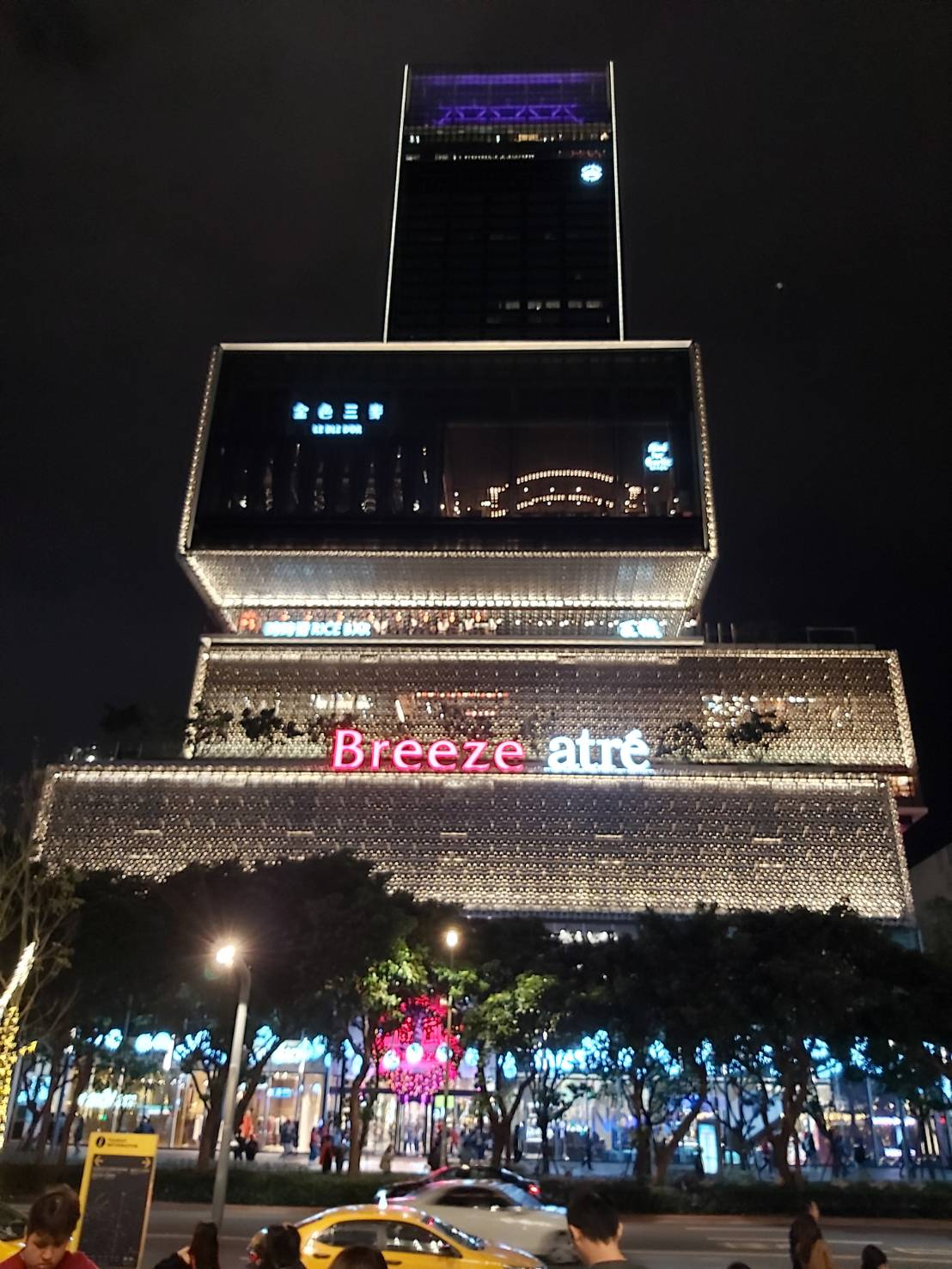 Taipei Nanshan Plaza at night 中文（台灣）: 臺北南山廣場夜間外觀